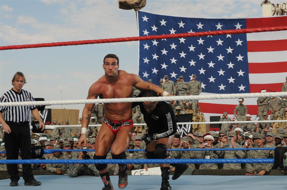 World Wrestling Entertainment superstars Chris Masters and MVP perform for the troops Dec. 4 at Holt Stadium at Joint Base Balad, Iraq. WWE superstars and divas came to Iraq to film and perform the "WWE Tribute to the Troops," which will air Dec. 19 at 9 p.m. Eastern time.